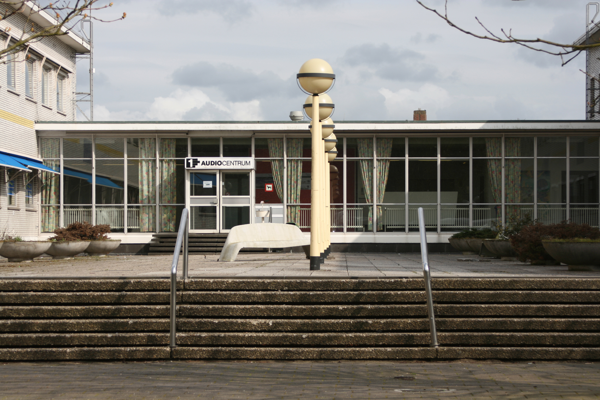 The main entrance to the former Audiocentrum where the Hilversum 3 (later Radio 3 and 3FM) studios were housed. Also, the Fonotheek was located in this building.